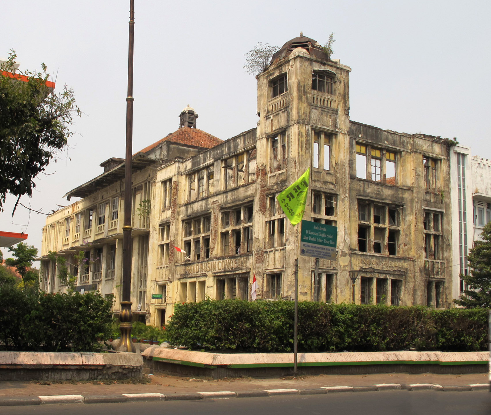 An abandoned and deteriorating warehouse, formerly the Dasaad Musin Concern . Jakarta Kota Tua ("Old Town"), Indonesia.